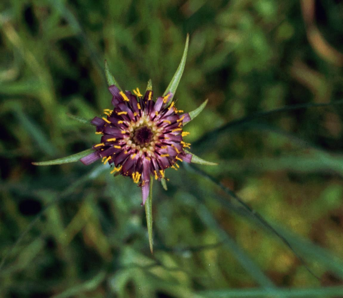 Tragopogon porrifolius s.l., Korbblütler (Asteraceae), Cichorioideae – Griechenland/Ελλάδα/Greece: SSE Miniá/Μηνιά, W Svoronáta/Σβορωνάτα (Kefallinia/Κεφαλληνία)